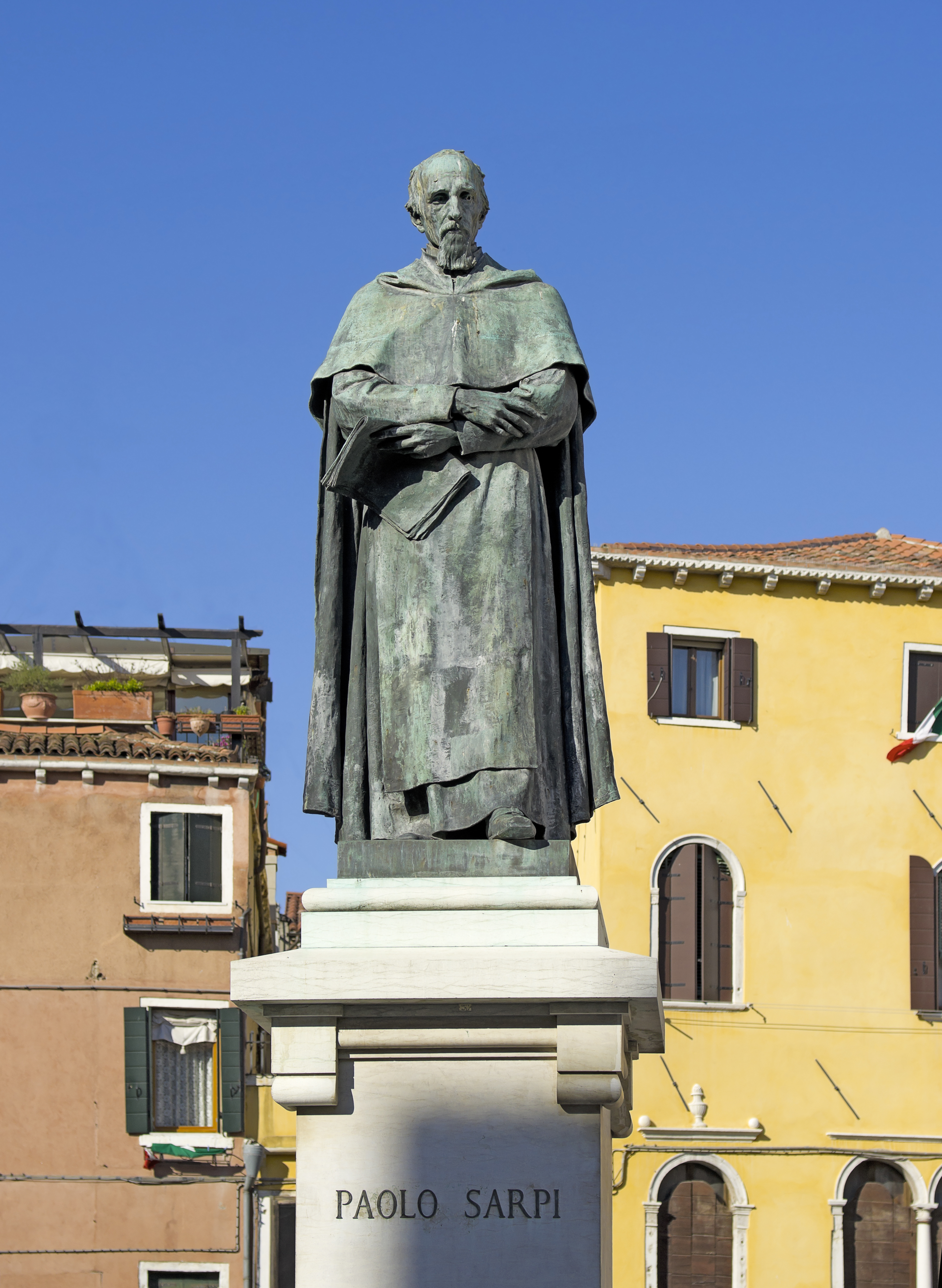 Emilio Marsili (1841-1926), "Monument to Paolo Sarpi" [1892], in Campo Santa Fosca square, in Venice